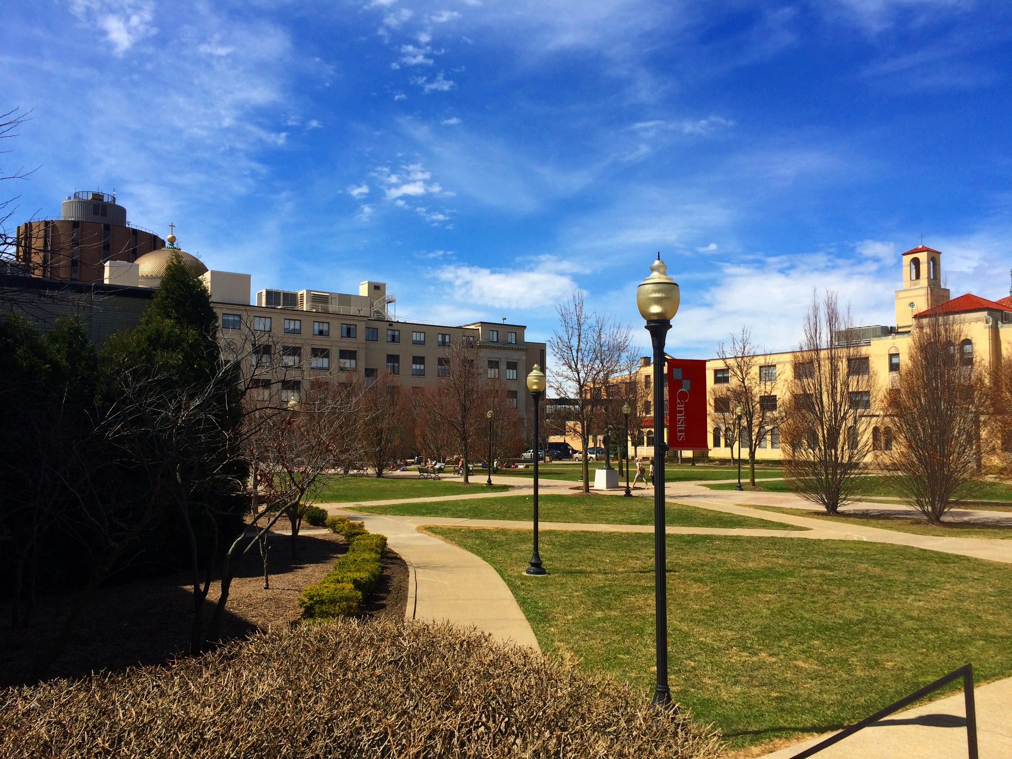 The quad at Canisius College, looking west toward Main Street, April 2015.